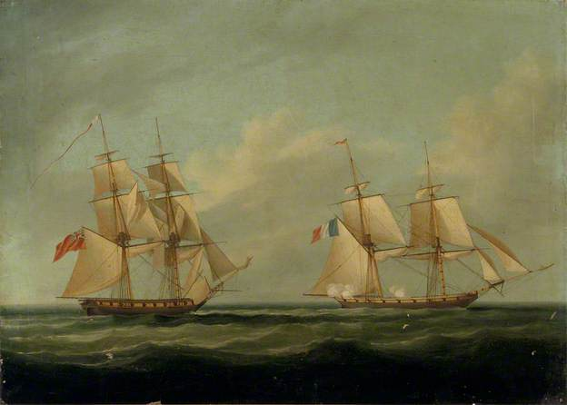 (c) National Maritime Museum; Supplied by The Public Catalogue Foundation